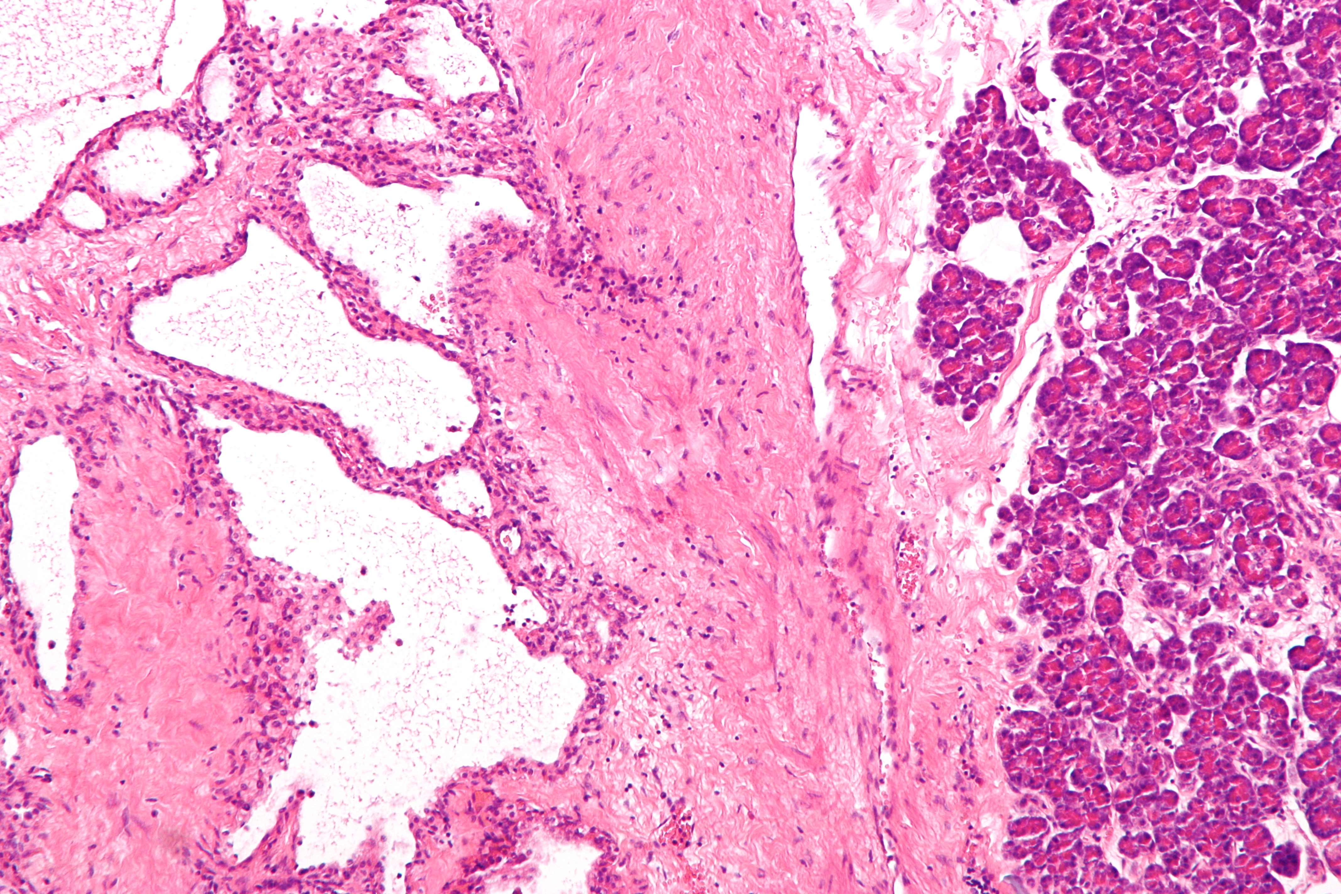 Intermediate magnification micrograph of a serous microcystic adenoma of the pancreas, also pancreatic serous microcystic adenoma, pancreatic serous cystadenoma and serous cystadenoma of the pancreas. H&Estain. These lesions may be a part of von Hippel-Lindau syndrome (hemangioblastomas, increased risk of clear cell renal cell carcinoma, port-wine stains, pheochromocytoma, eye problems, liver cysts, pancreatic cysts, kidney cysts). Features: Small cysts lined by ciliated cuboidal epithelium with cilia. Related images Low mag. High mag. Very high mag.